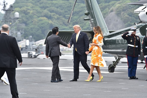 Donald, along with Melania Trump, meets with Japanese Prime Minister Shinzō Abe on JS Kaga in Yokosuka, Japan, 28 May 2019